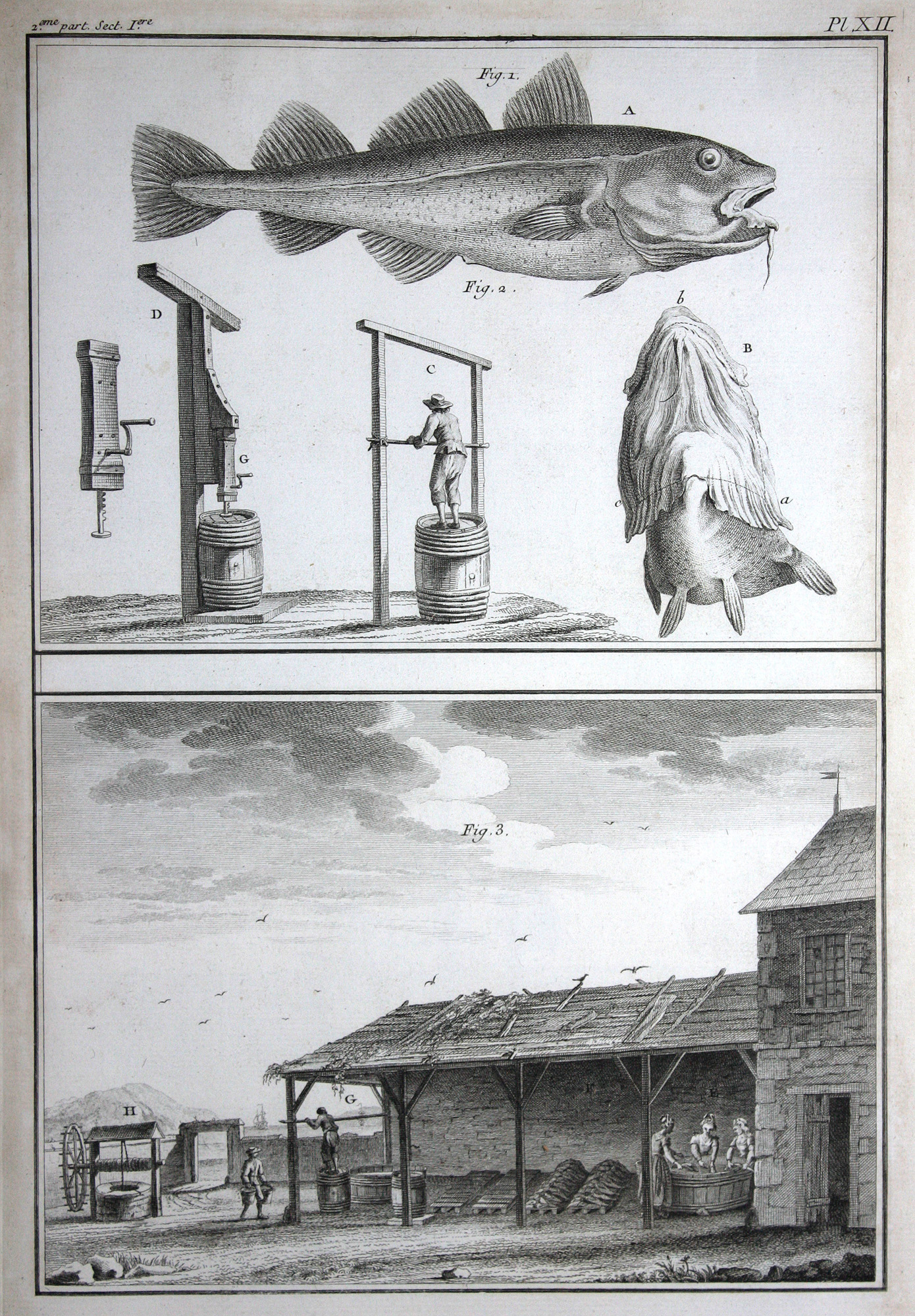 No known copyright restrictions. Please credit UBC Library as the image source. For more information, see Alternative Title: Part 2, Section 1, Plate 12 Description: Comme la Morue que nous avons fait graver sur la Planche IV, est représentée ainsi qu'elle étoit en vie, & s'agitant au fortir de l'eau, avec la bouche extrêmement ouverte; j'ai cru devoir en représenter une morte & étendue sur une table, Fig. 1, principalement pour qu'on apperçoive mieux la forme des mâchoires, & comment la bourse qui les accompagne se replie pour entrer dans la bouche quand elle fe ferme; je me suis contenté de la représenter en petit pour ne point multiplier les planches: d'ailleurs on prend de jeunes Morues fort petites. A la Figure 2, nous avons représenté en B, une tête de Morue vue par-dessous la gorge, pour faire mieux comprendre ce qu'on nomme la langue, qui est tout ce qui est renfermé par la ligne ponctuée a, b, c. L'homme E faute un barril qu'on remplit de Morue; c'eft-à-dire, qu'étant monté sur un faux-fond qui couvre les Morues, il les presse de tout le poids de son corps: cela ne suffit pas; on les comprime encore plus fortement avec un cric G. A la Figure 3, on voit sous un hangar des femmes E qui lavent & nétoient des Morues dans une grande baille remplie de saumure; cette opération se fait aux Morues qui ont déjà été falées & mises en barril à la mer par les Pêcheurs. On voit en F les Morues lavées qui s'égouttent; on les remet dans de nouveaux barrils avec du sel, & on les faute C. On voit en G le cric qui sert à les presser encore plus, & comme il faut beaucoup d'eau pour cette opération, il y a toujours dans ces Manufactures un puits H. Creator: Henri-Louis Duhamel Du Monceau; Jean-Louis De La Marre Date Created: 1769-1782 Source: Traité général des pesches: et histoire des poisons qu'elles fournissent, tant pour la subsistance des hommes, que pour plusieurs autres usages qui ont rapport aux arts et au commerce. Permanent URL